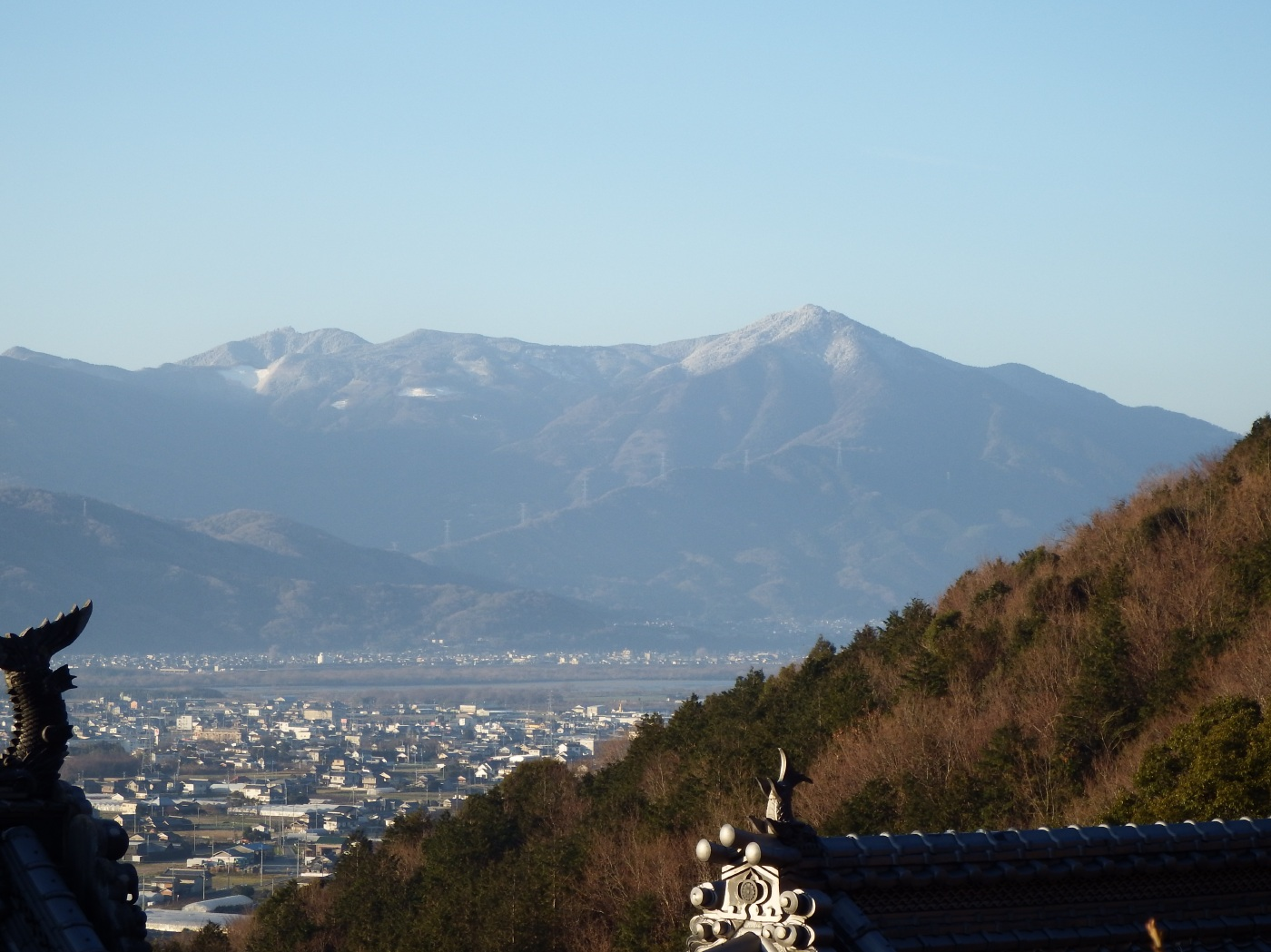 Mount Kotsu (Kotsu-zan) seen from the Kirihata-ji temple in Awa City